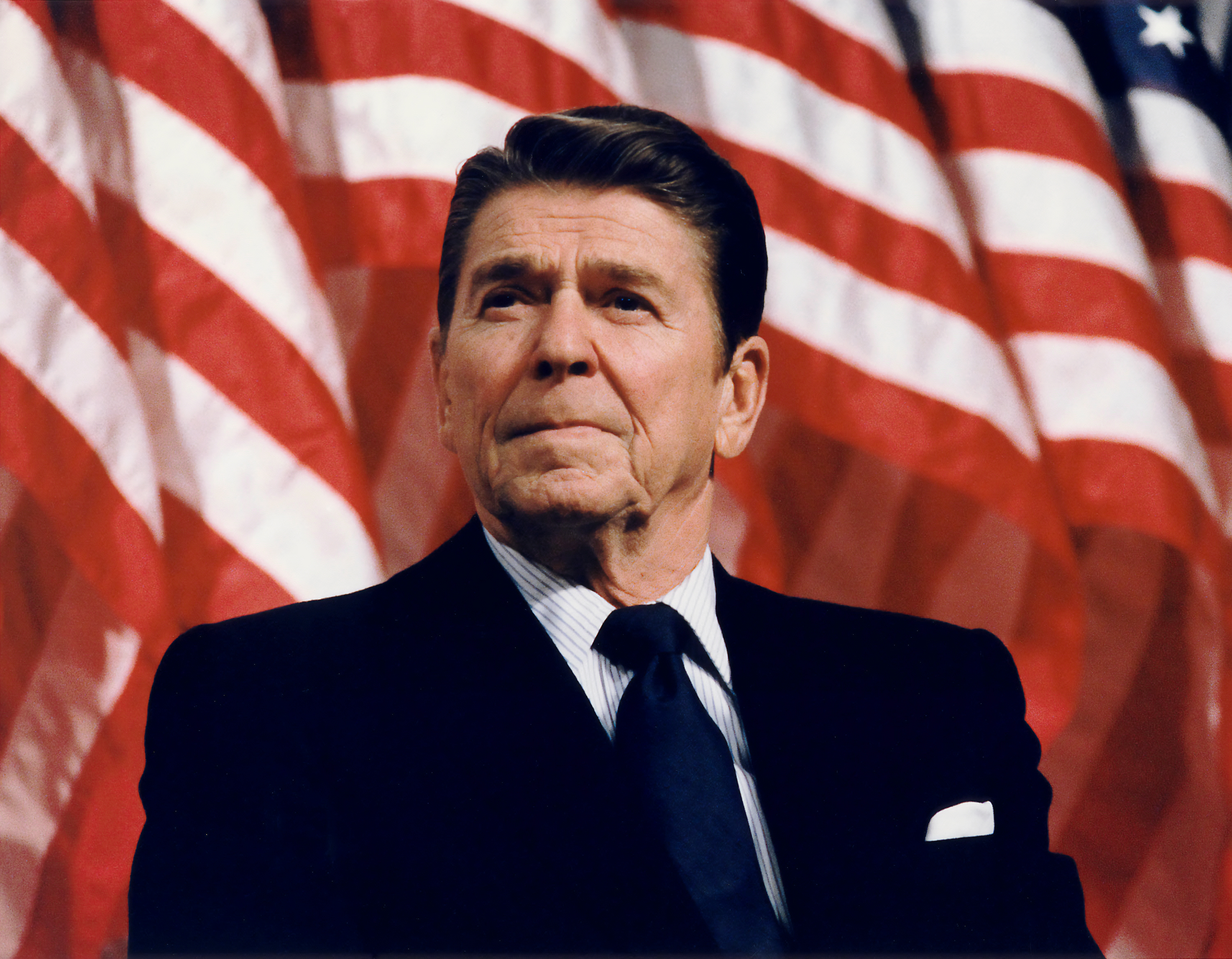 President Ronald Reagan speaking at a Rally for Senator Durenberger in Minneapolis, Minnesota, 1982.